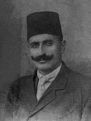 Edib Bey (Edip Dinç)